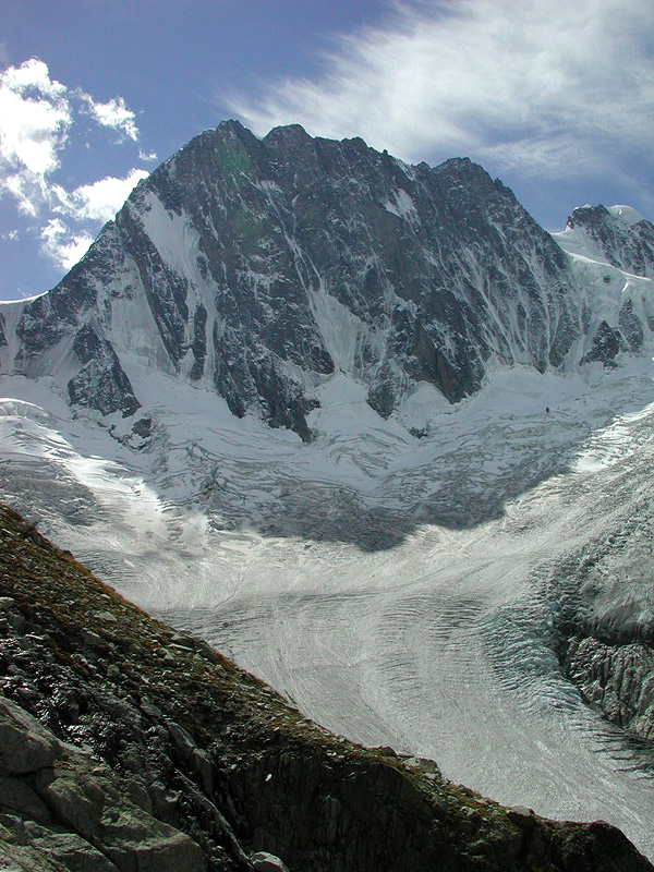 Grandes Jorasses, Massif du Mont Blanc, North side. Photograph by Robin Lacassin, September 2000